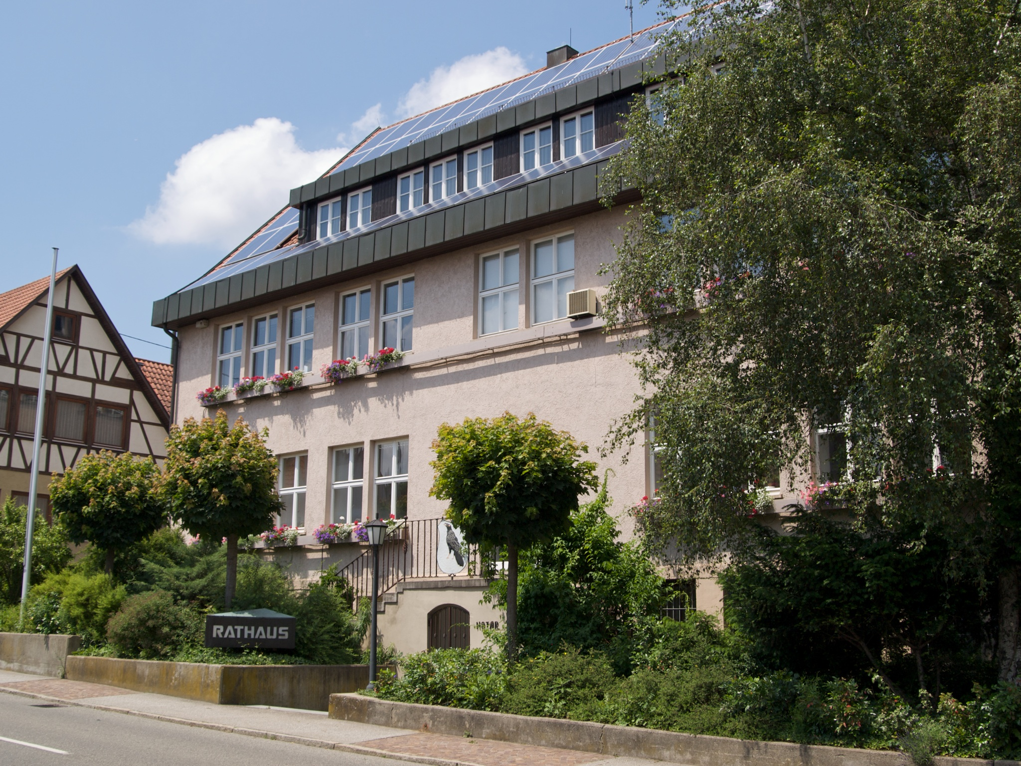 Town hall in Kusterdingen.